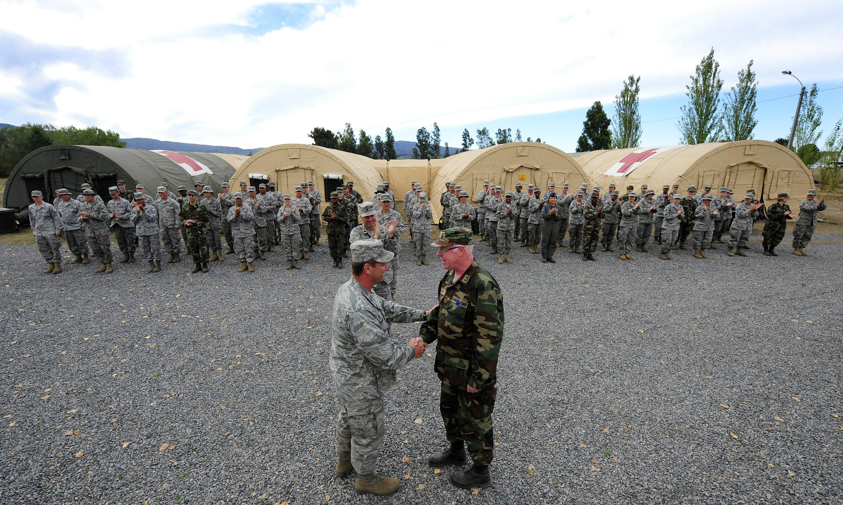 Colonel David Garrison and Chilean army Lieutenant Colonel (Dr.) Guillermo Uslar shake hands during the final hand-off of the expeditionary hospital March 26, 2010, in Angol, Chile. Members of the Air Force Expeditionary Medical Support team completed a humanitarian mission to build a hospital and augment medical care for members of the Angol community. A team of Airmen built, staffed and equipped a field hospital to serve more than 110,000 people in the Angol region. During a ceremony March 24, U.S. government officials donated the hospital to the local Chilean medical community.